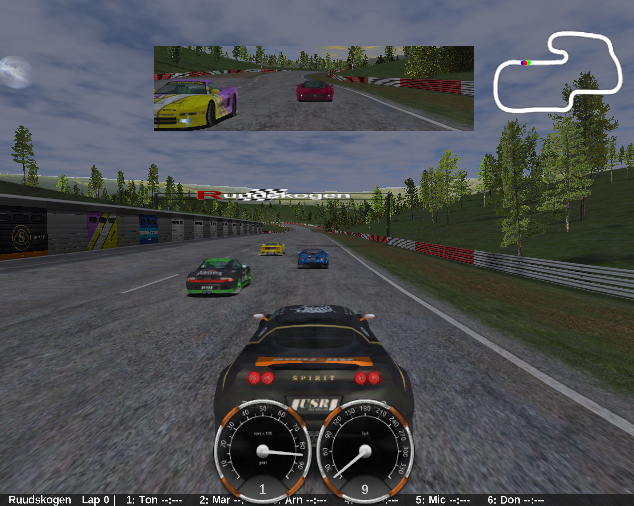 Screenshot from the videogame Speed Dreams. Copyleft: This work of art is free; you can redistribute it and/or modify it according to terms of the Free Art License. You will find a specimen of this license on the Copyleft Attitude site as well as on other sites.